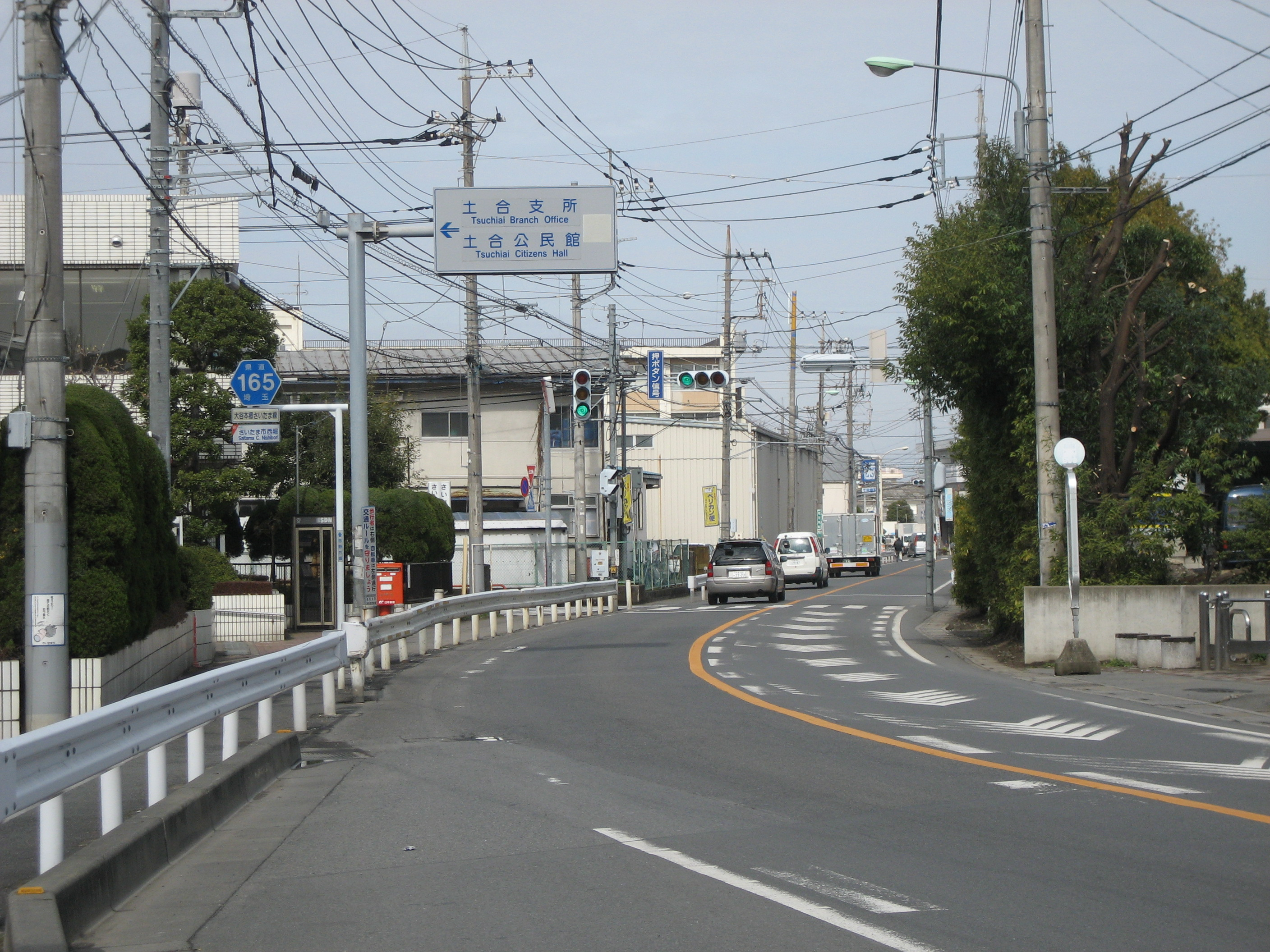 The Saitama Prefectural Road Route 165 in Sakura-ku, Saitama City